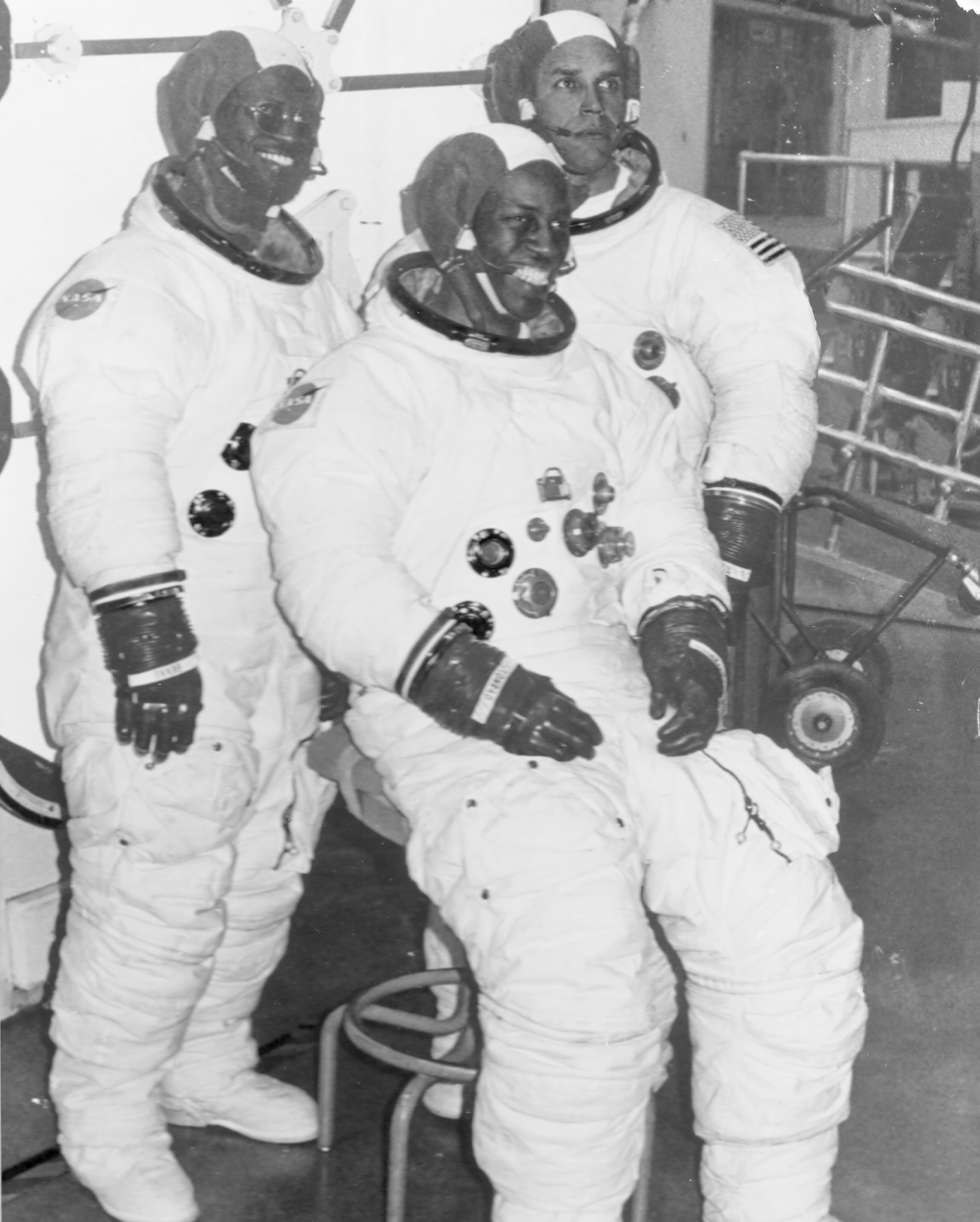 NASA NATIONAL AERONAUTICS AND SPACE ADMINISTRATION FOR RELEASE: May 16, 1978 PHOTO NO. 78-HC-172 ASTRONAUT CANDIDATES FROM LEFT TO RIGHT RONALD E. MCNAIR GUION S. BLUFORD FREDERICK D. GREGORY